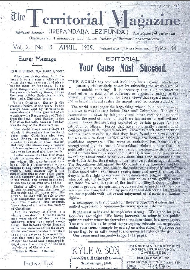 This file originated from one of the first editions of the newspaper thatwas found on microfilm, The front page was printed, subsequently scanned, and uploaded to wikipedia